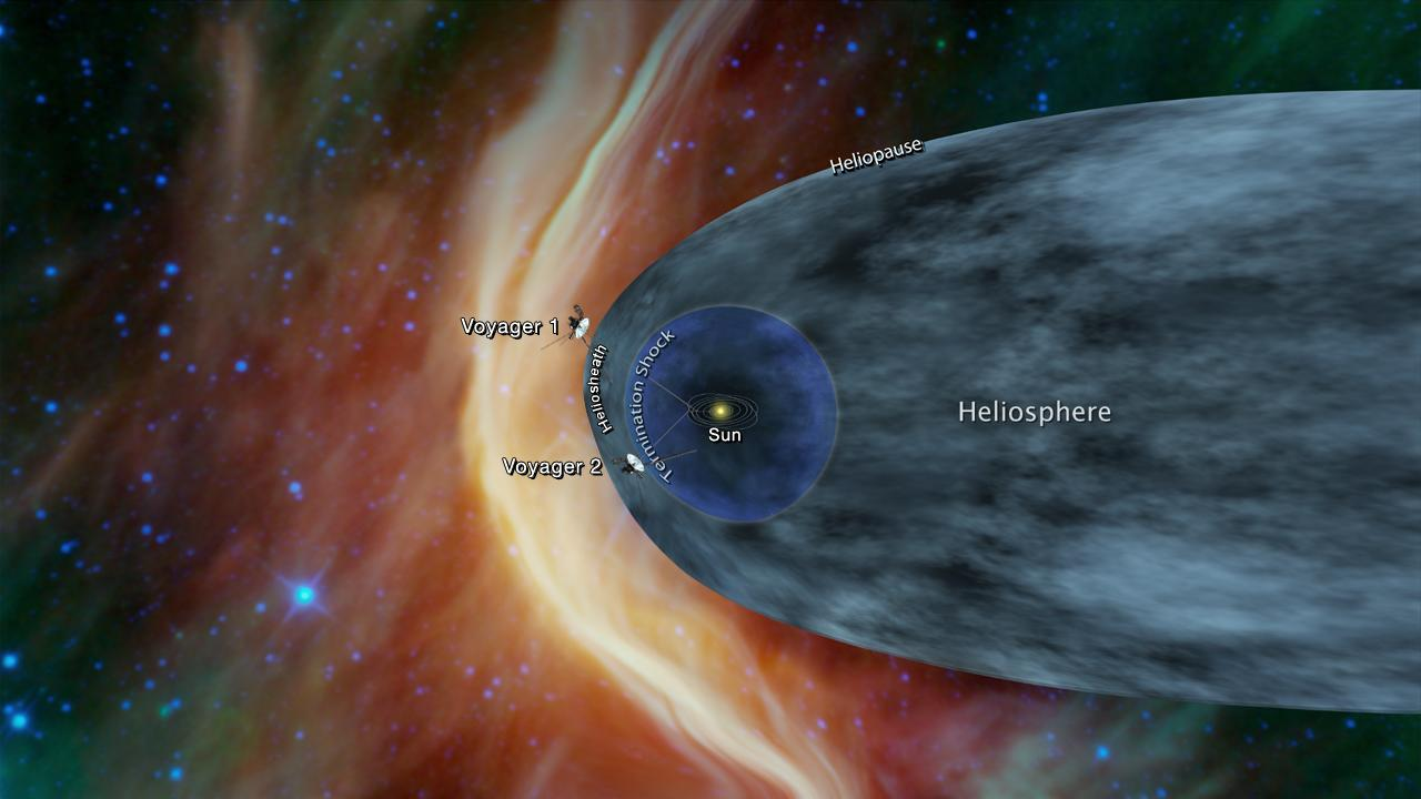 PIA22566: Voyager Probes Heliosphere Chart[1] This graphic shows the position of the Voyager 1 and Voyager 2 probes, relative to the heliosphere, a protective bubble created by the Sun that extends well past the orbit of Pluto. Voyager 1 crossed the heliopause, or the edge of the heliosphere, in 2012. Voyager 2 is still in the heliosheath, or the outermost part of the heliosphere. The Voyager spacecraft were built by JPL, which continues to operate both. JPL is a division of Caltech in Pasadena. California. The Voyager missions are a part of the NASA Heliophysics System Observatory, sponsored by the Heliophysics Division of the Science Mission Directorate in Washington. For more information about the Voyager spacecraft, visit and References ↑ (5 October 2018). "NASA Voyager 2 Could Be Nearing Interstellar Space". NASA. Retrieved on 6 October 2018.